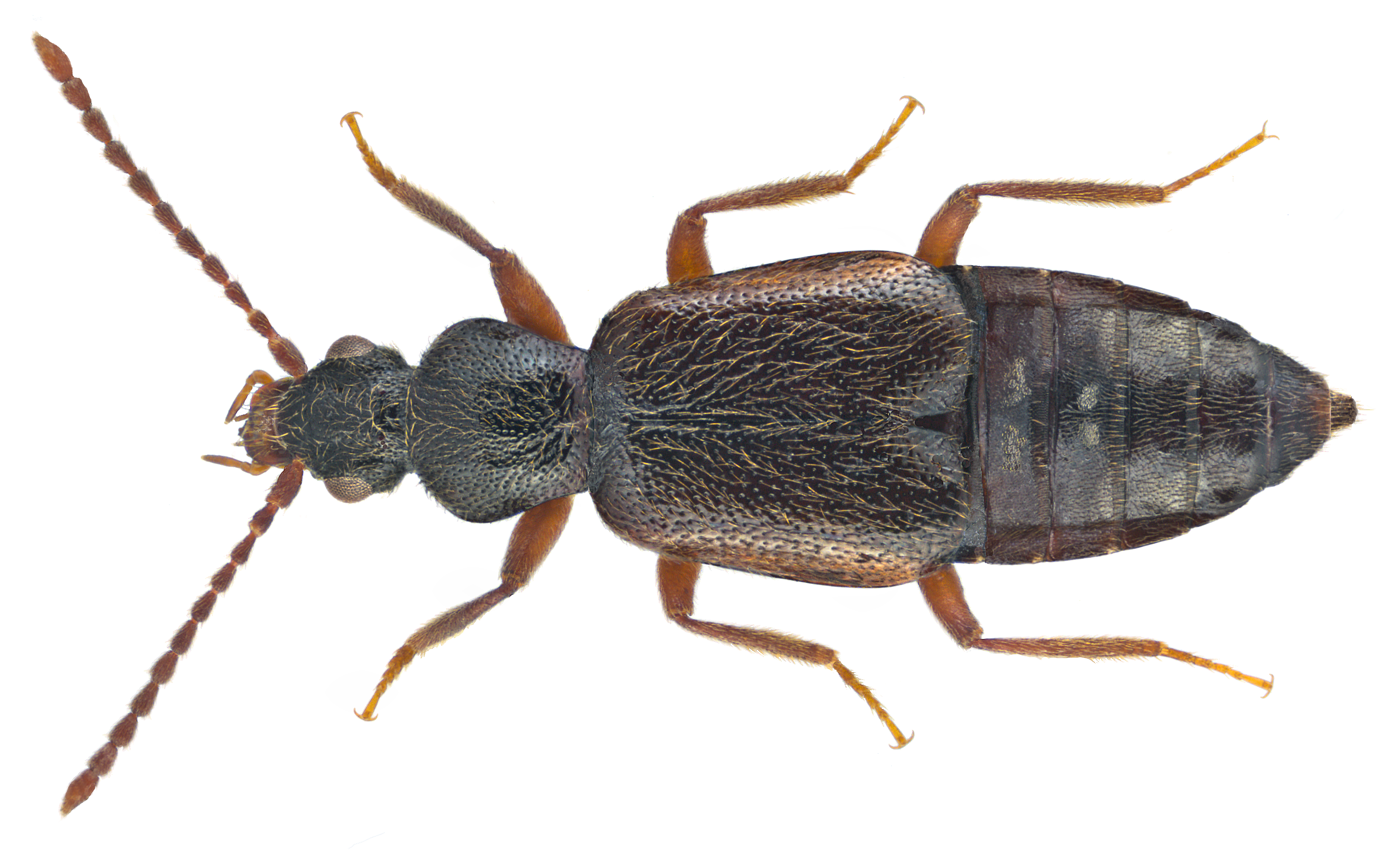 Family: Staphylinidae Size: 4,8 mm (4,0 to 4,8 mm) Distribution: West Palaearctic Ecology: living in mountainous regions, in moss, on stream banks Location: Austria, Scheffau, Kaisergebirge,1400 m leg.det. U.Schmidt, 26.V.2001 Photo: U.Schmidt, 2015